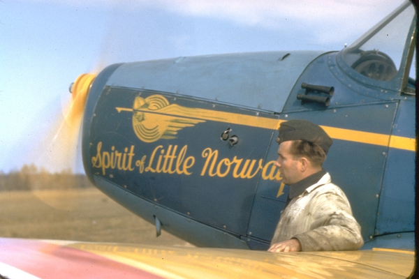 Fairchild Cornell at Little Norway, Canada